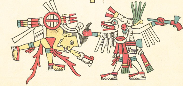 Codex Fejervary Mayer page 38 Detail